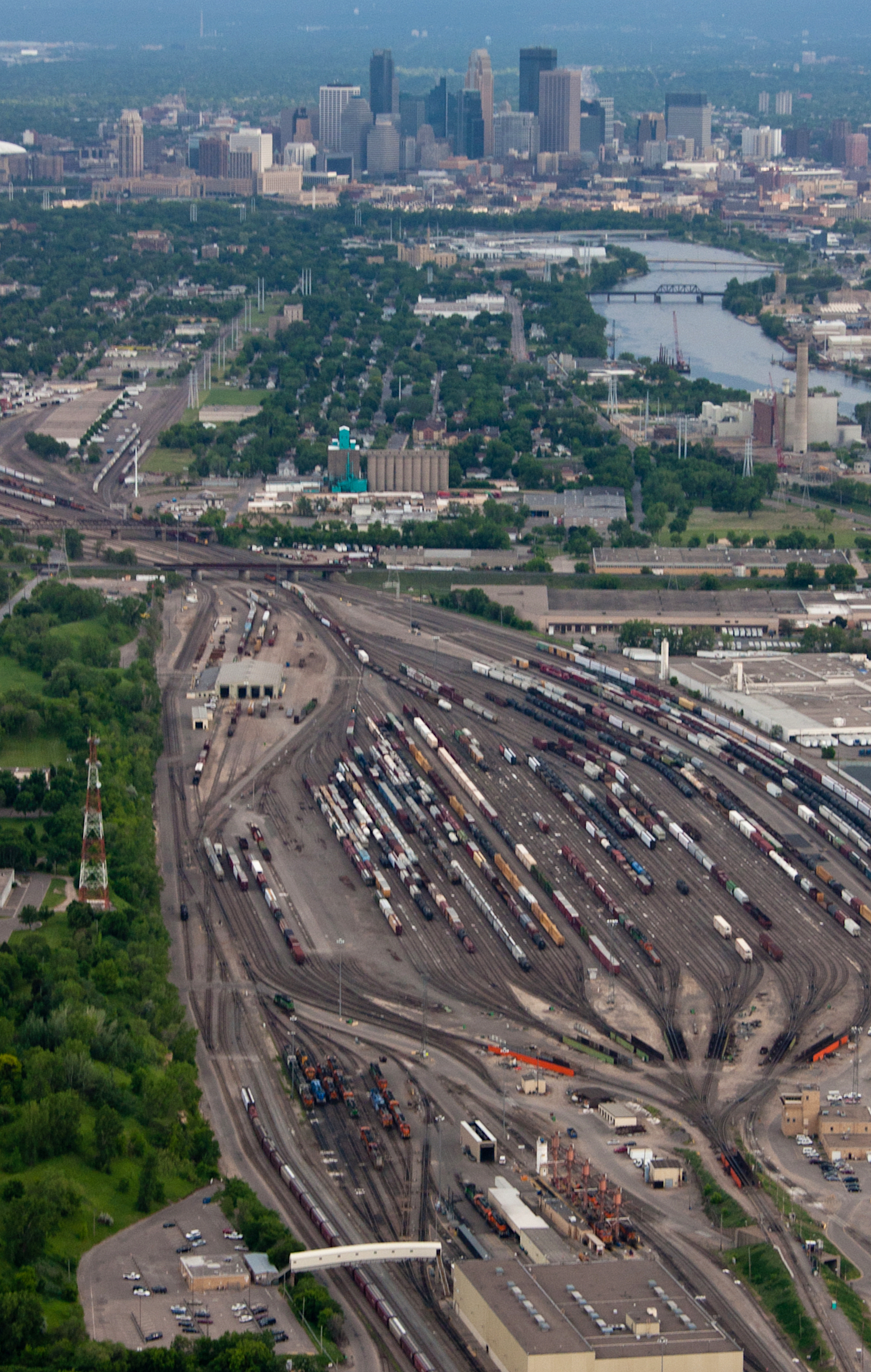 Aerial Minneapolis Skyline and BNSF MNNR Rail Yard